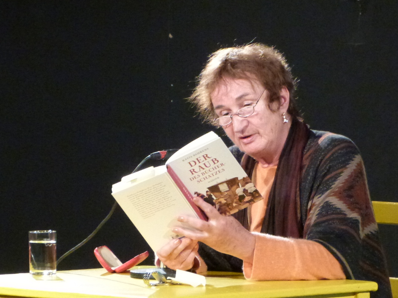 German writer and translator Katja Behrens at the Erlanger Poetenfest 2012